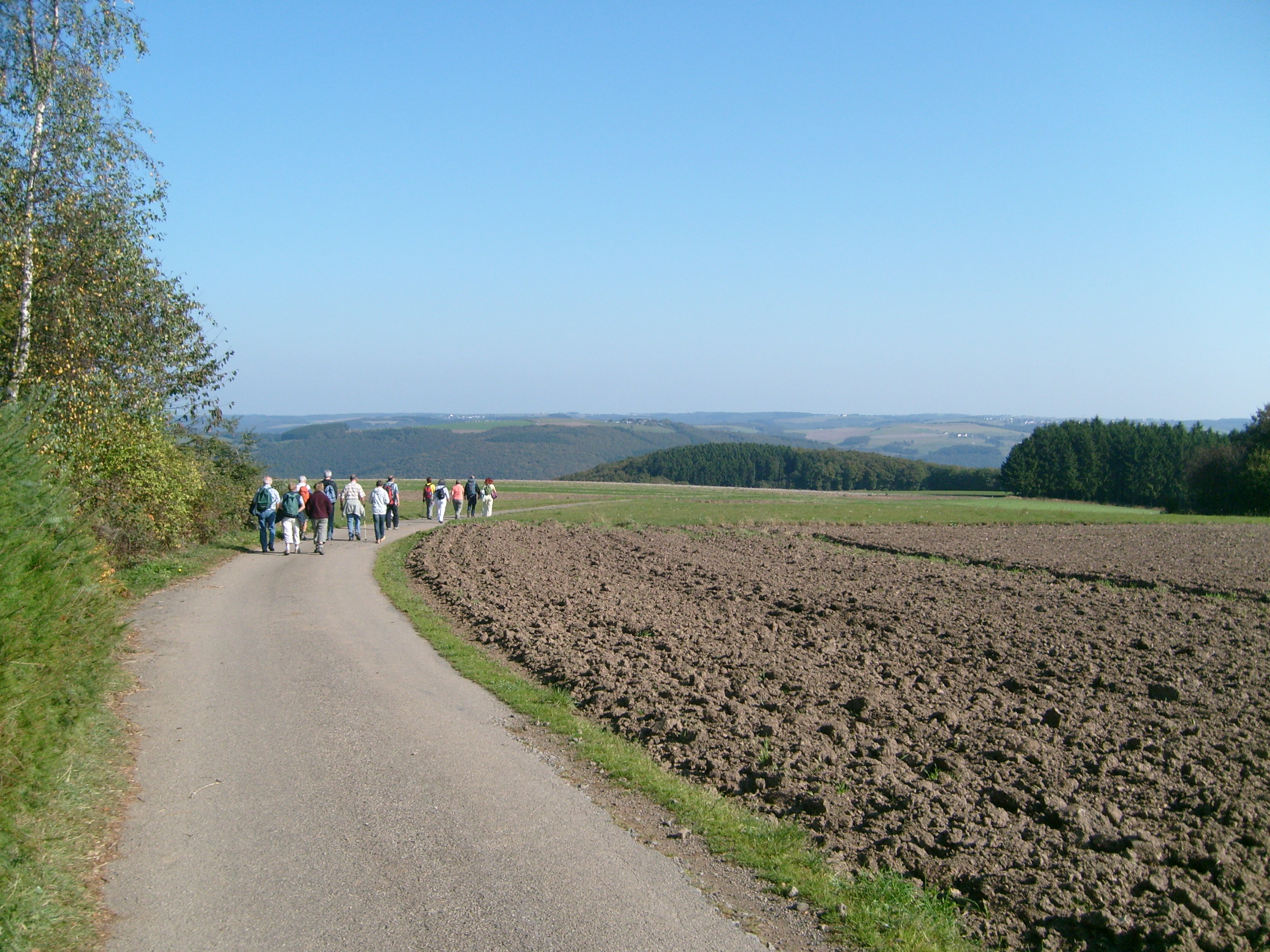 Hiking group near Ringel in the north of Luxembourg.